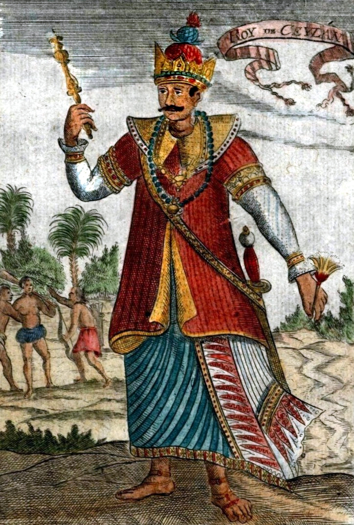 Portrait of King Vimaladharmasuriya I